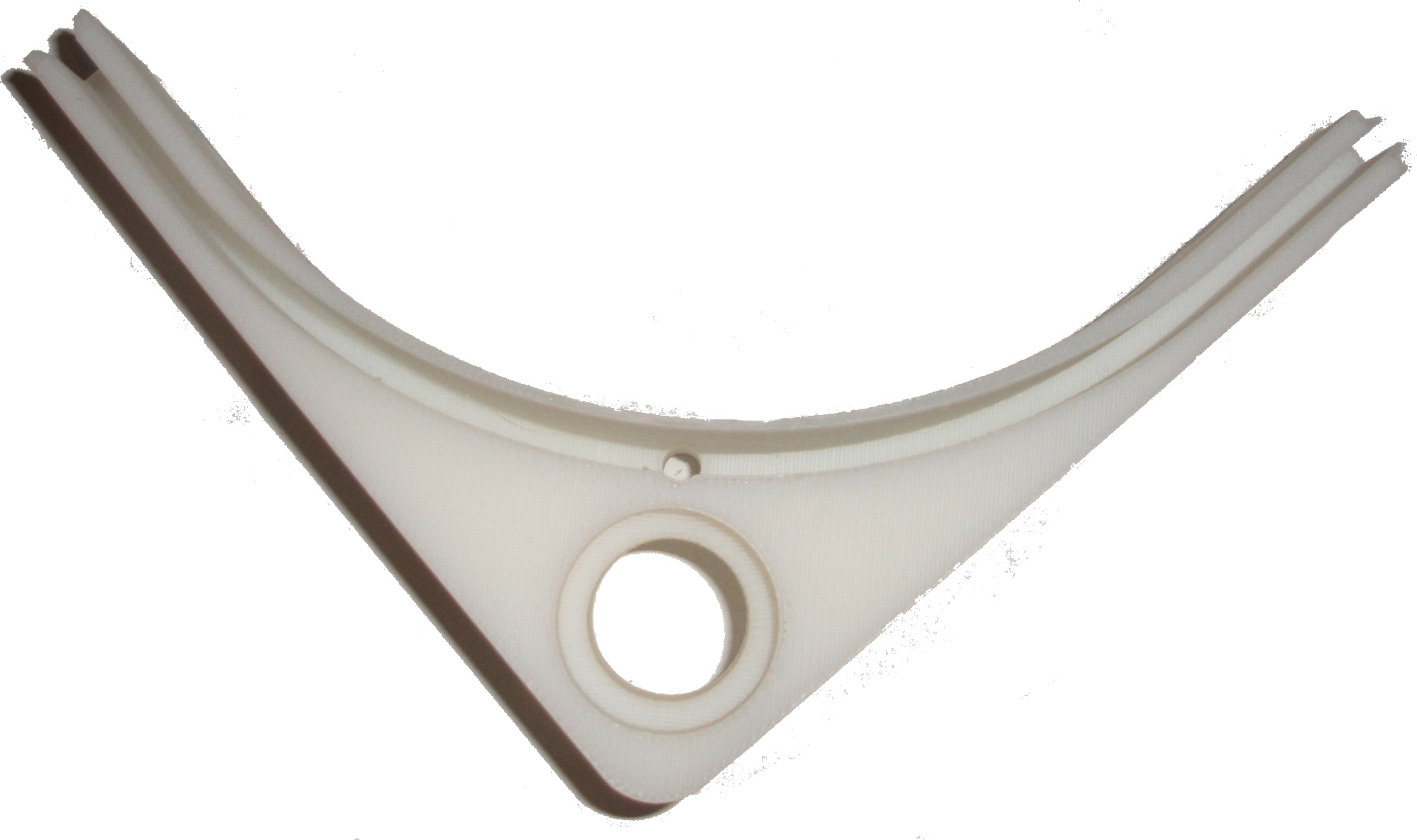 A part that was produced via stereolithography.